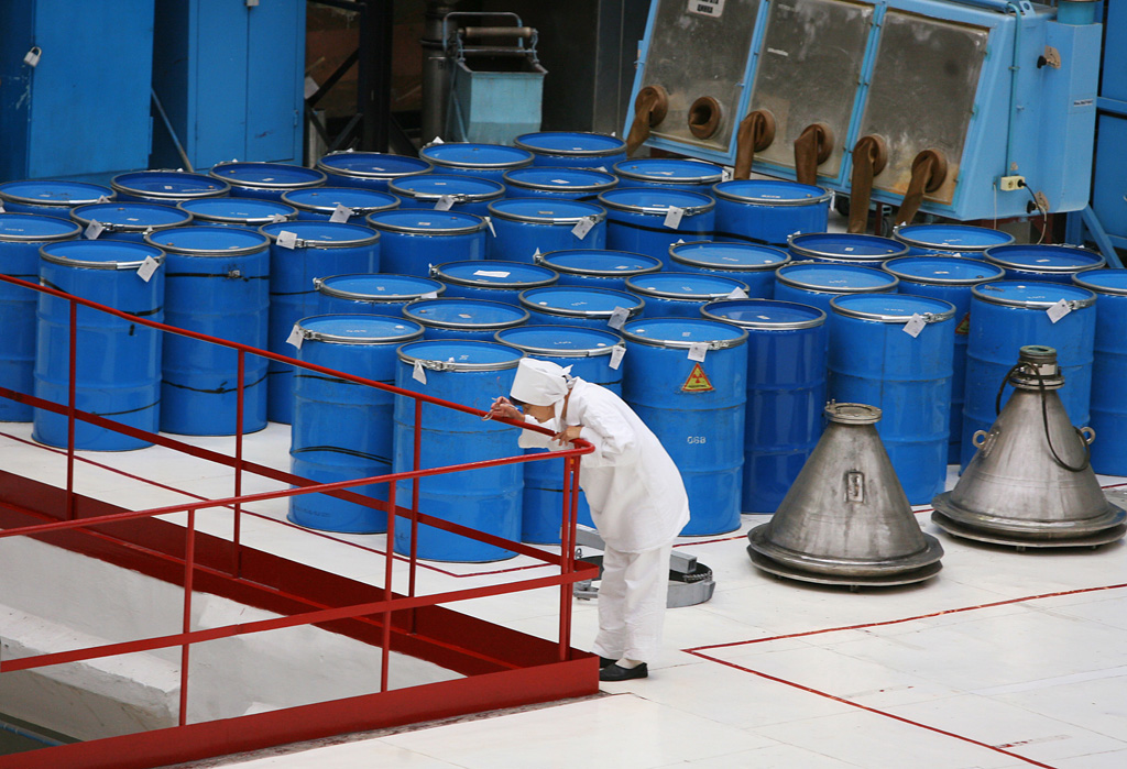 “Uranium dioxide fuel pellet starting material”. Starting material containers for uranium dioxide fuel pellet production at the Novosibirsk Chemical Concentrate Works